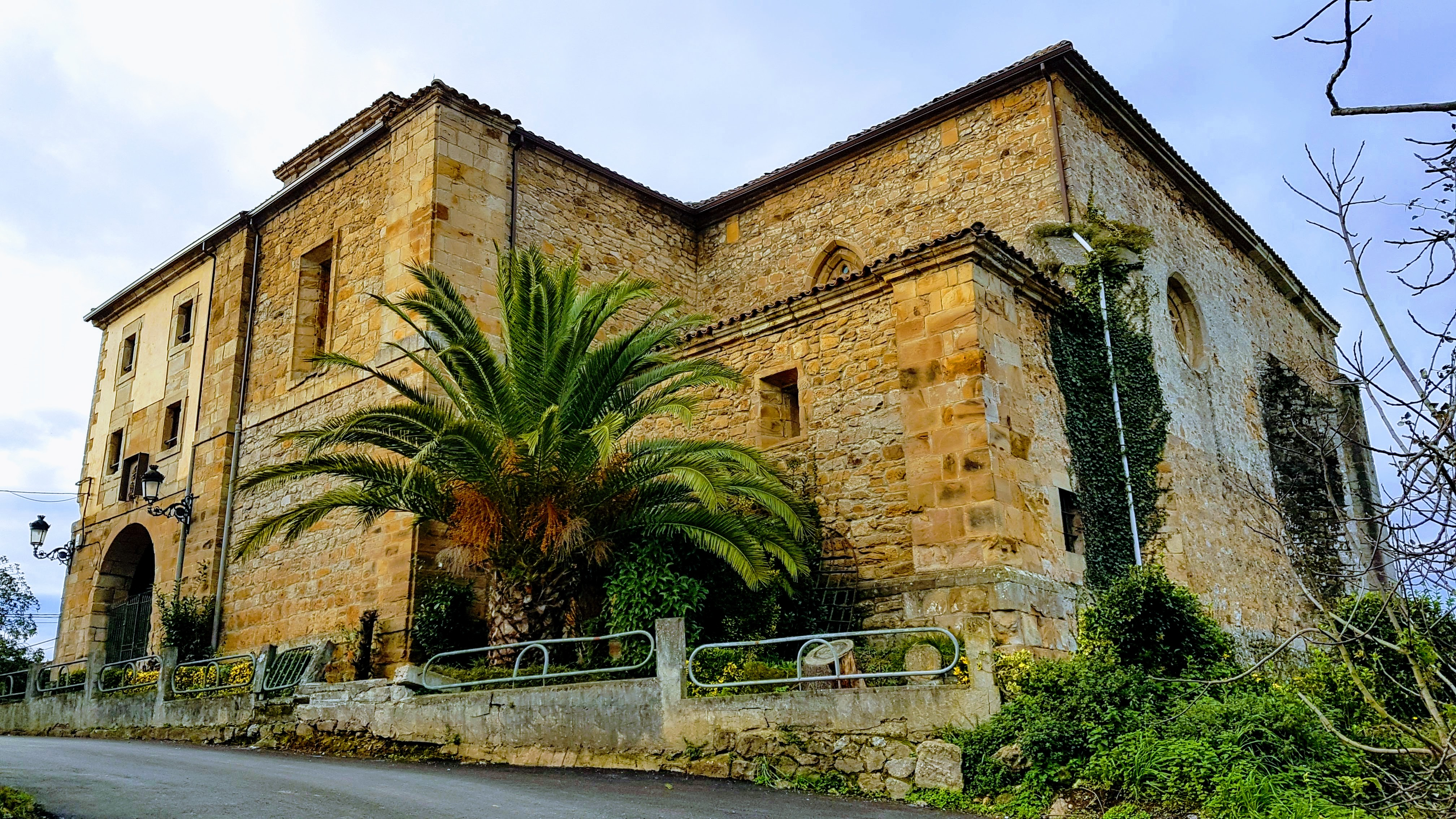 Church in Carasa, Spain